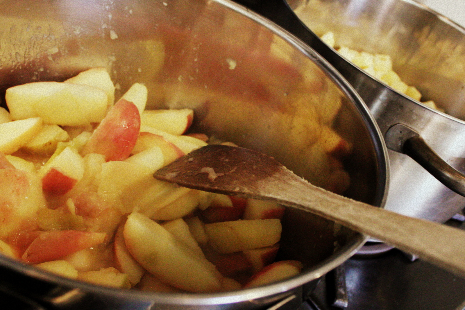 The apples then went on the stove to cook and cook and cook. Rebecca said that the joke at Deluxe Kitchen is that you "cook until bored."